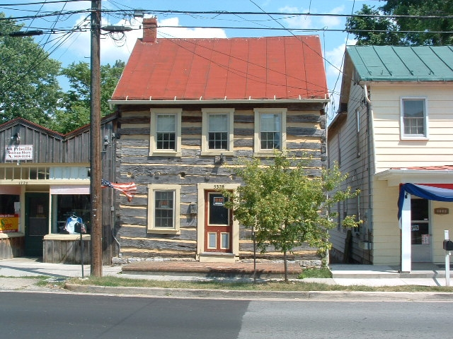 The Widdows-Frazier House in Stephens City, Virginia